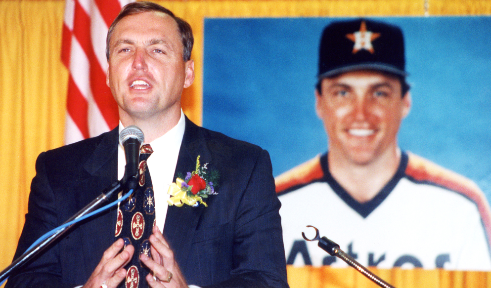 Terry Puhl during his induction speech at the Canadian Baseball Hall of Fame, 1995.